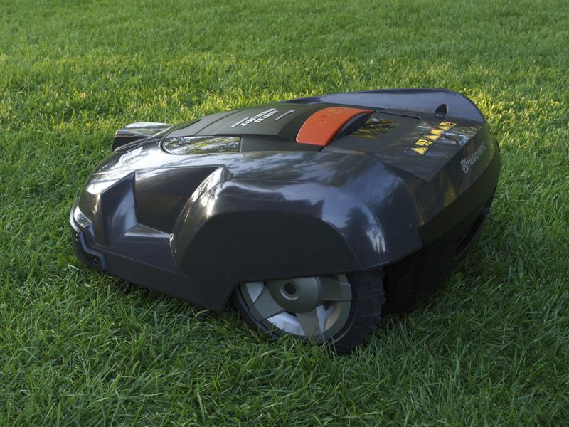 Husqvarna Automower 230ACX robotic lawn mower